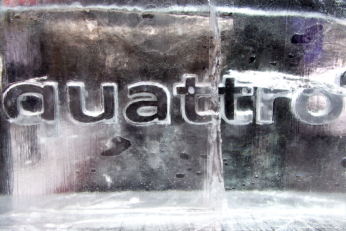 An exposed ice block with quattro sign